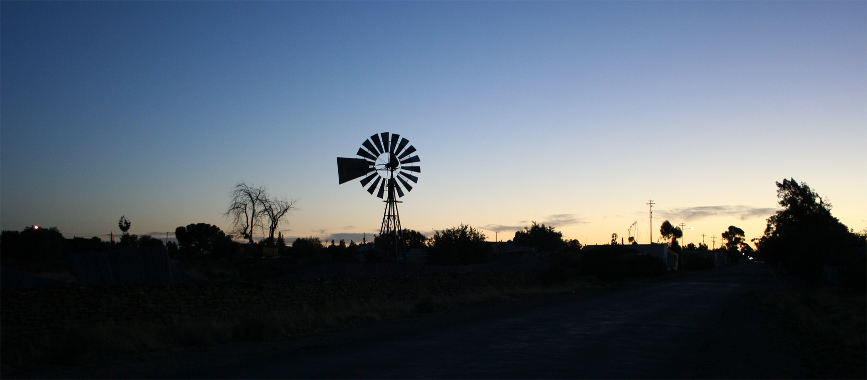 A picture of the town of Fraserburg, Northern Cape at dusk.